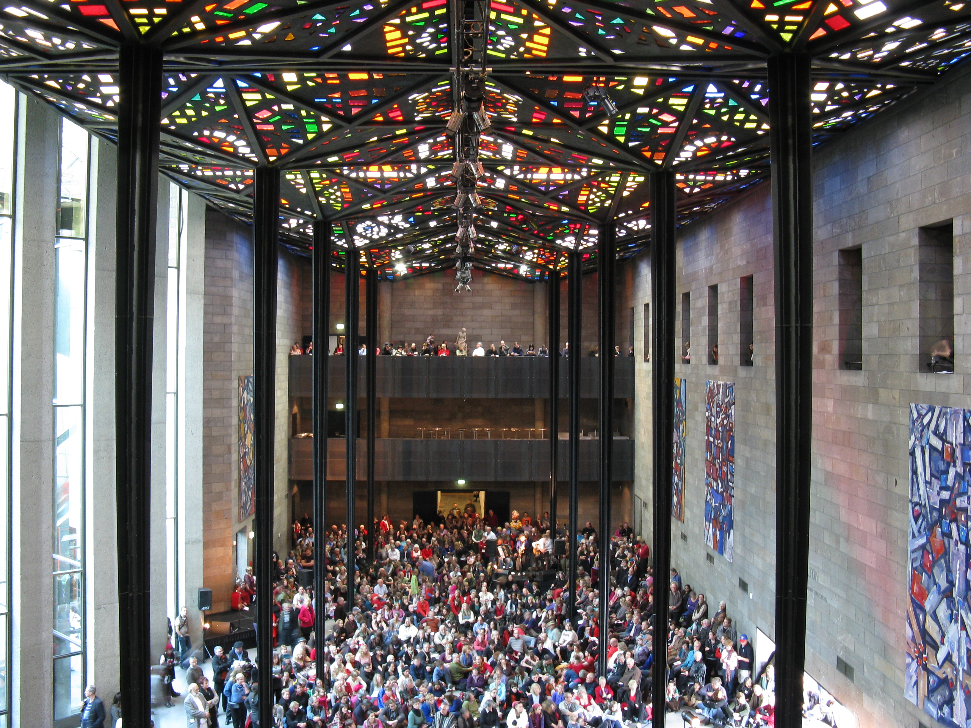 with a packed house below